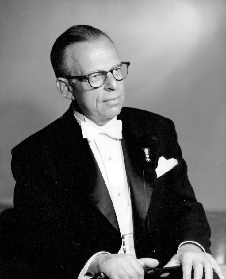 Photo of conductor Kurt Herbert Adler in 1966.